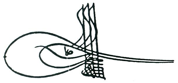 Tughra (i.e., seal or signature) of Selim II, Sultan of the Ottoman Empire (1566-1574). An explanation of the different elements composing the tughra can be found here.